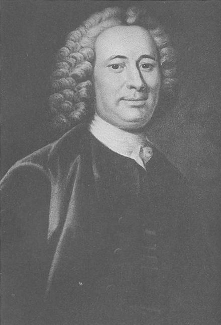 Portrait of Charles Carroll of Annapolis (1702–1782)